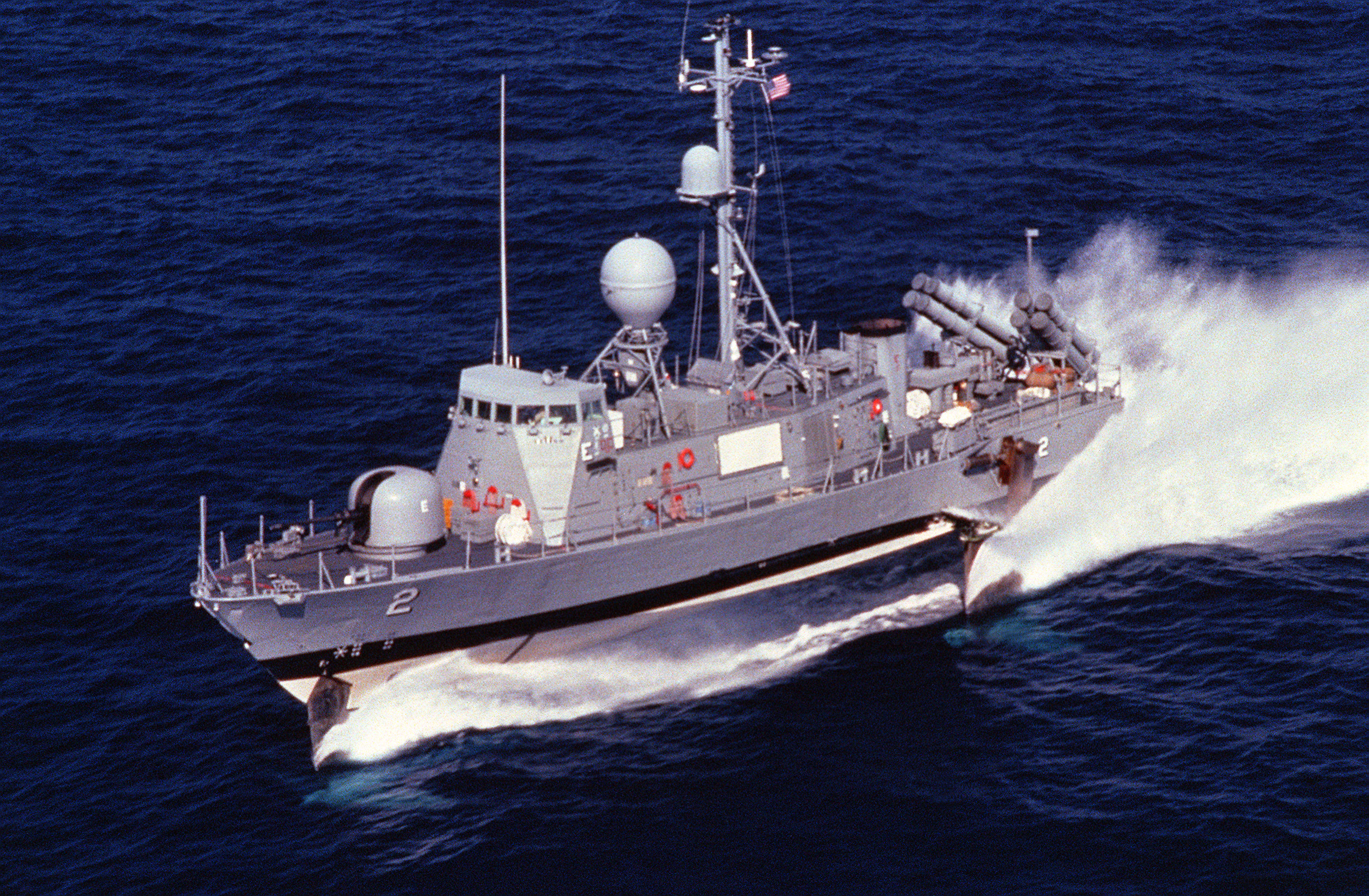 A port bow view of the hydrofoil patrol combatant missile ship USS HERCULES (PHM-2) underway. Navy hydrofoils are regularly used on Joint Task Force 4 drug interdiction missions.